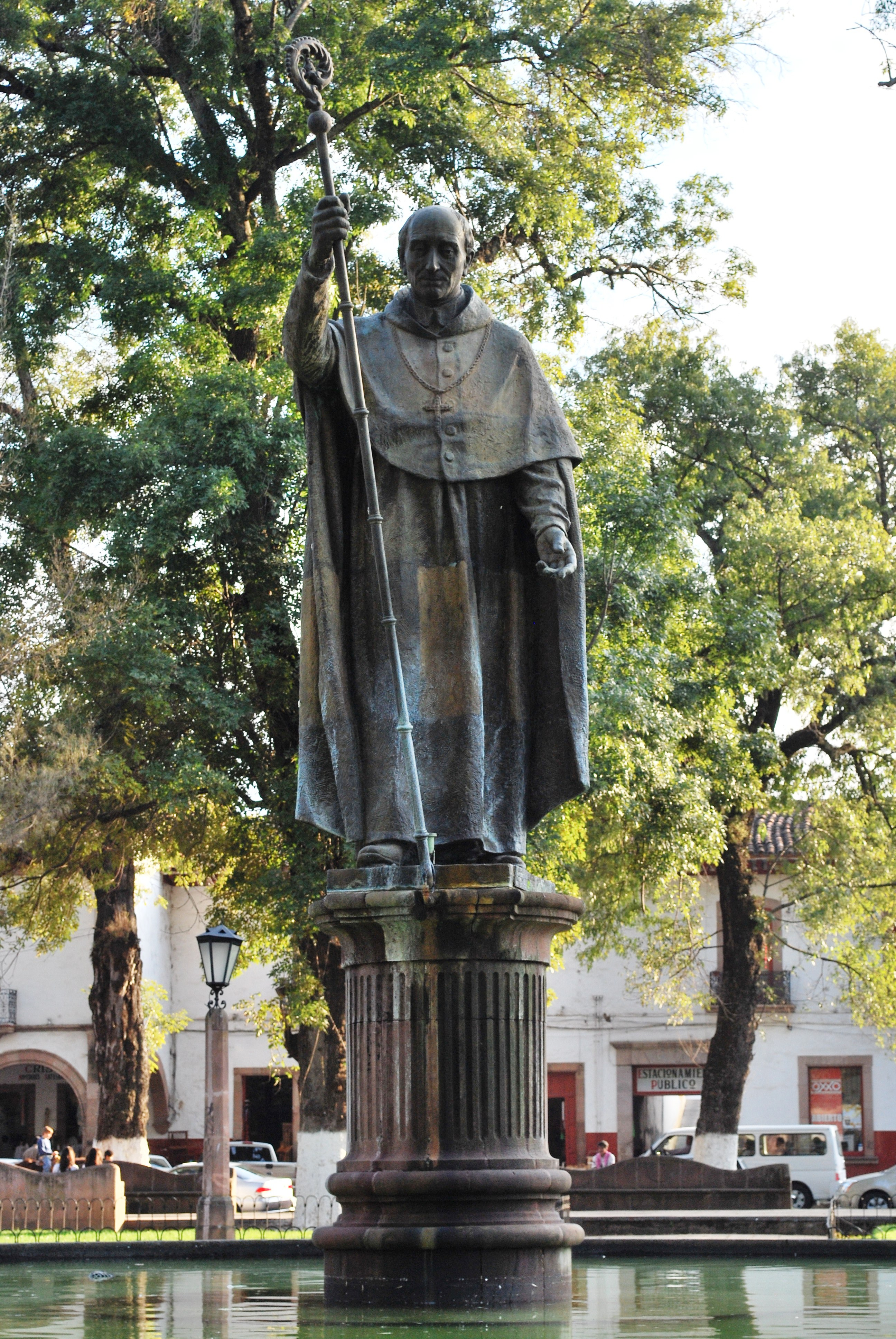 Statue of Vasco de Quiroga in Vasco de Quiroga Plaza in Patzcuaro, Michoacan